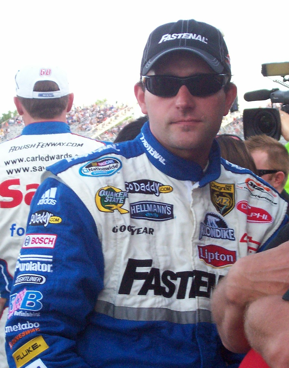 NASCAR Nationwide Series driver Scott Wimmer at the 2009 race at the Milwaukee Mile.